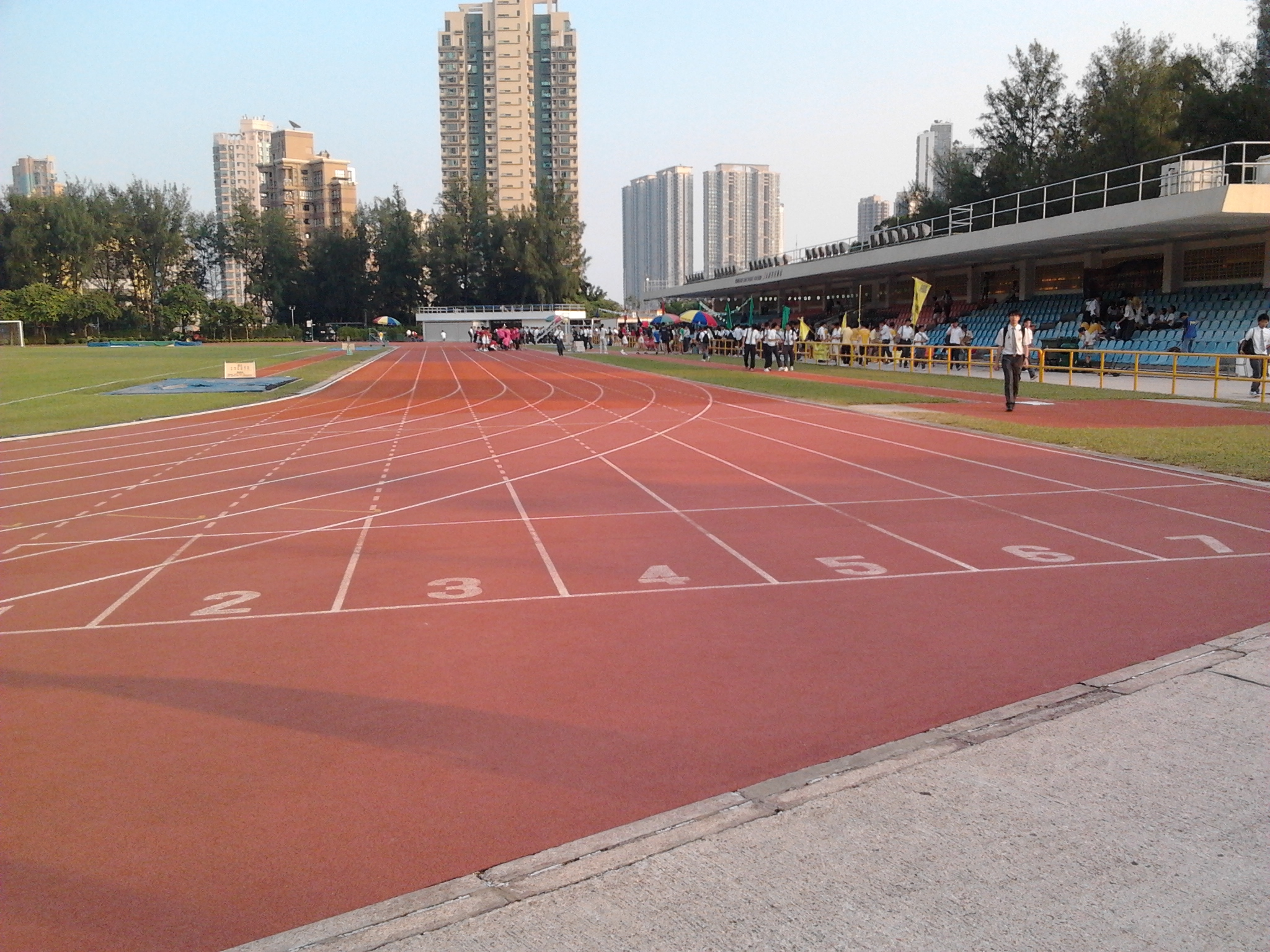 HK KowloonTsaiSportsGround